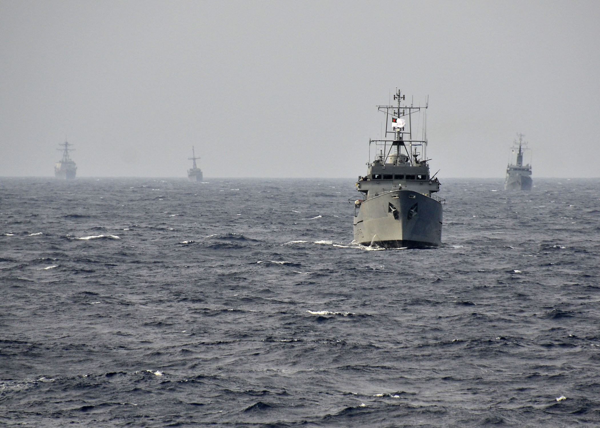 BAY OF BENGAL (Sept. 22, 2011) Bangladesh navy and U.S. Navy ships participate in a surface gunnery exercise during Cooperation Afloat Readiness and Training (CARAT) Bangladesh 2011. CARAT is a series of bilateral exercises held annually in Southeast Asia to strengthen relationships and enhance force readiness. Bangladesh is participating in this exercise for the first time. (U.S. Navy photo by Mass Communication Specialist 2nd Class Daniel Barker/Released)